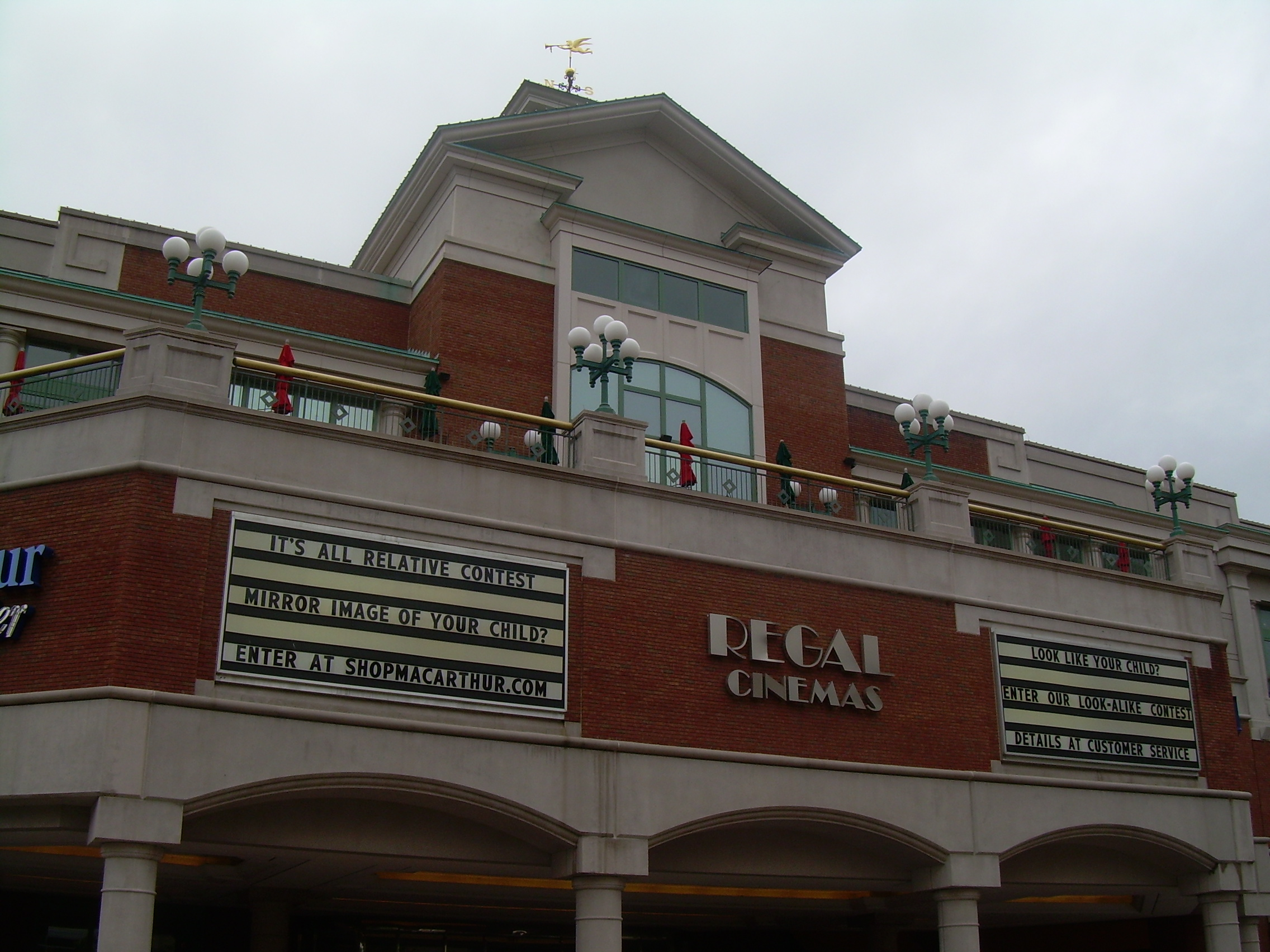 MacArthur Center Stadium Cinema, Norfolk, Virginia